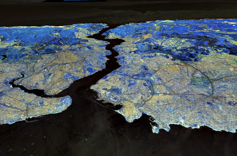 Landsat7 Satellite Image of Istanbul